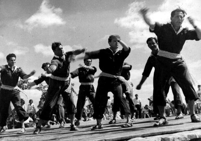 The 4th Dancing Festival at Kibbutz Daliah in 1951, as photographed by members of nearby Kibbutz Ein Hashofet